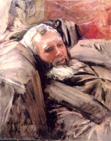 George McCulloch John Singer Sargent -- American painter 1901 Boston Athenæum Oil on canvas 27.5 x 21.5 in. Gift of Peggy McCulloch Jacobsen, 1996. Jpg: Boston Athenæum of Fine Arts